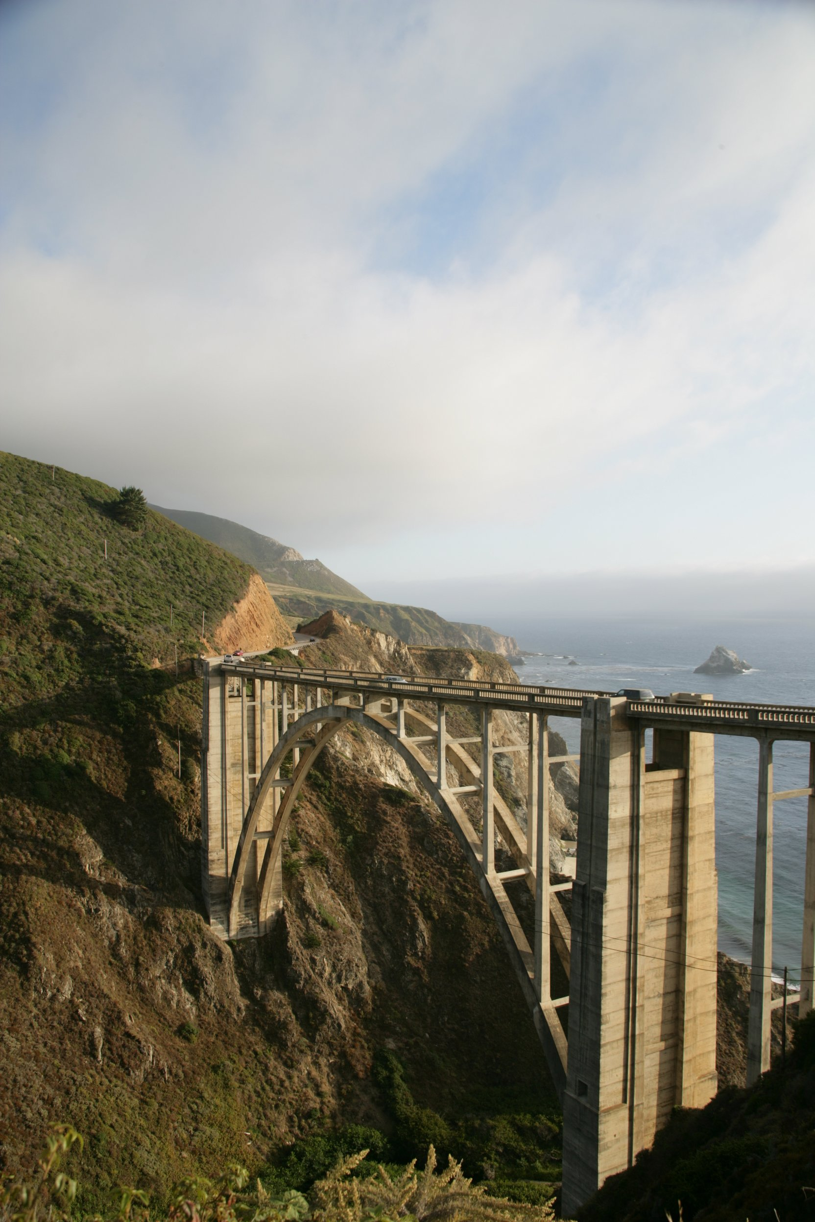 Bixby Bridge in Big Sur, California, USA, viewed from Old Coast Rd.